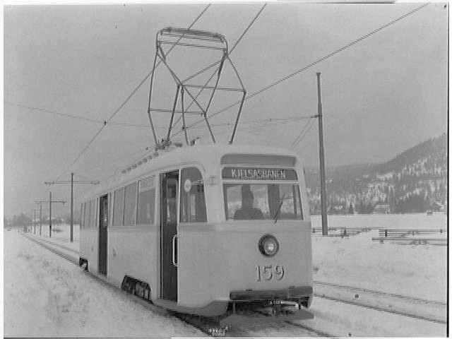 A Gullfisk tram on the Kjelsås Line in Oslo, Norway